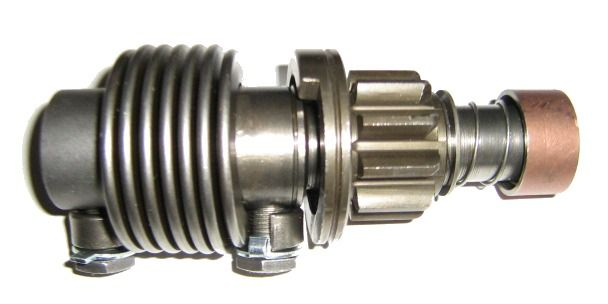 1925-34 Chevrolet Heavy Duty Bendix Starter drive Assembly with Spring